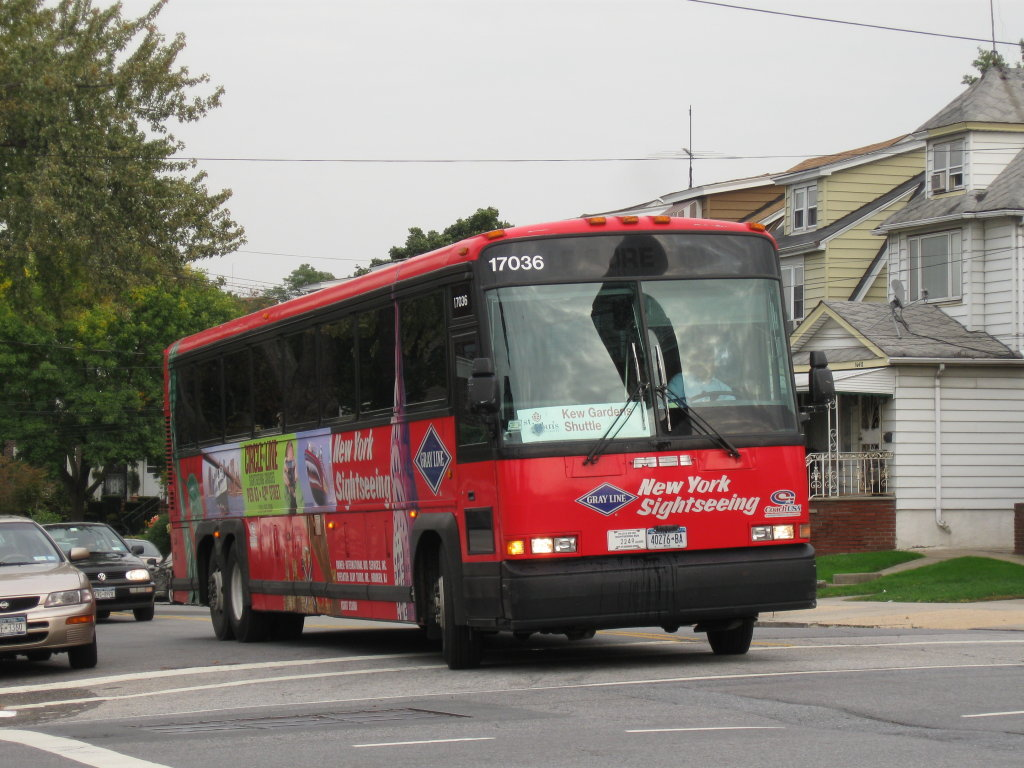 Coach USA Gray Line #17036 operates in shuttle service for St. John's University (New York).